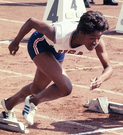 Edith McGuire, 100 m heats, 1964 Olympics